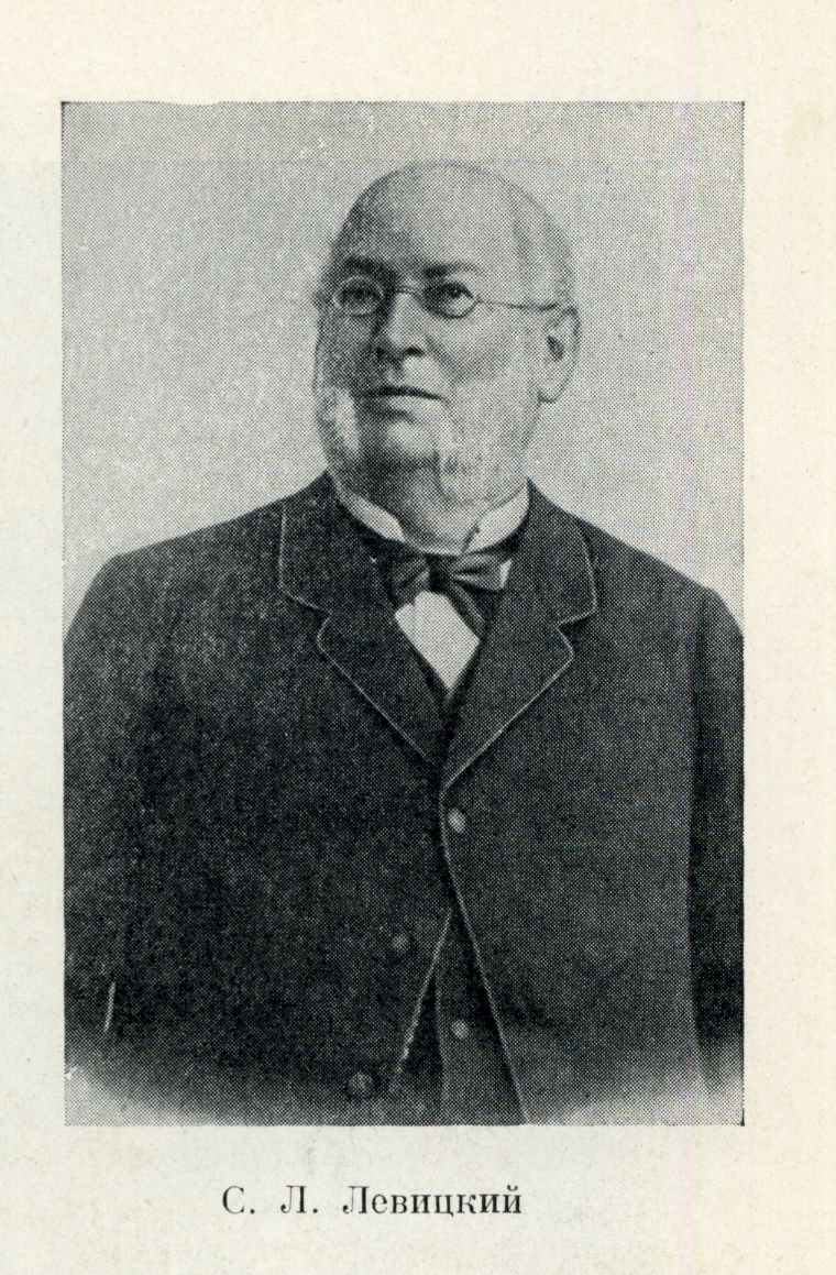 Sergey Lvovich Levitsky (1819-1898)